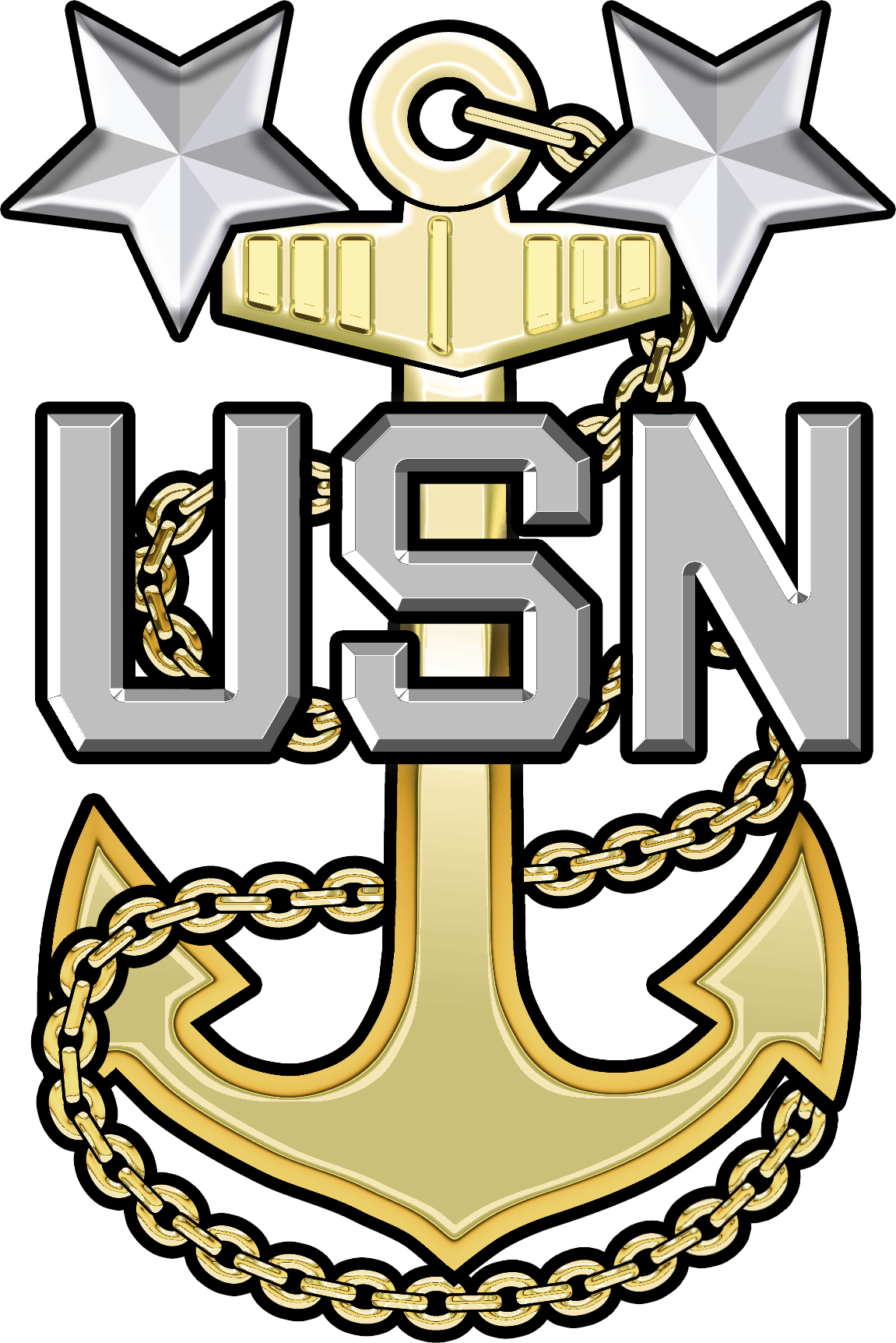 United States Navy Master Chief Petty Officer collar rate insignia.